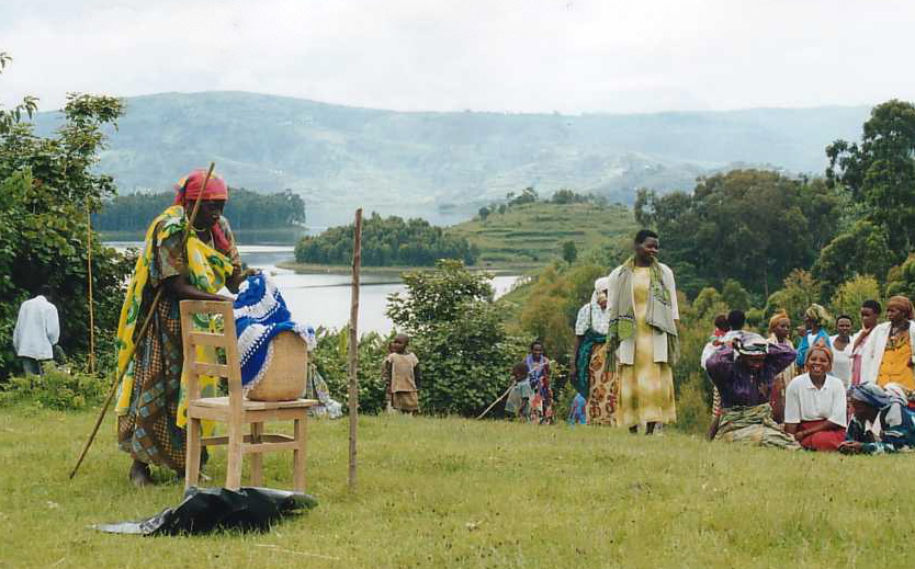 Elections in Bufuka, in the southwest corner of Uganda